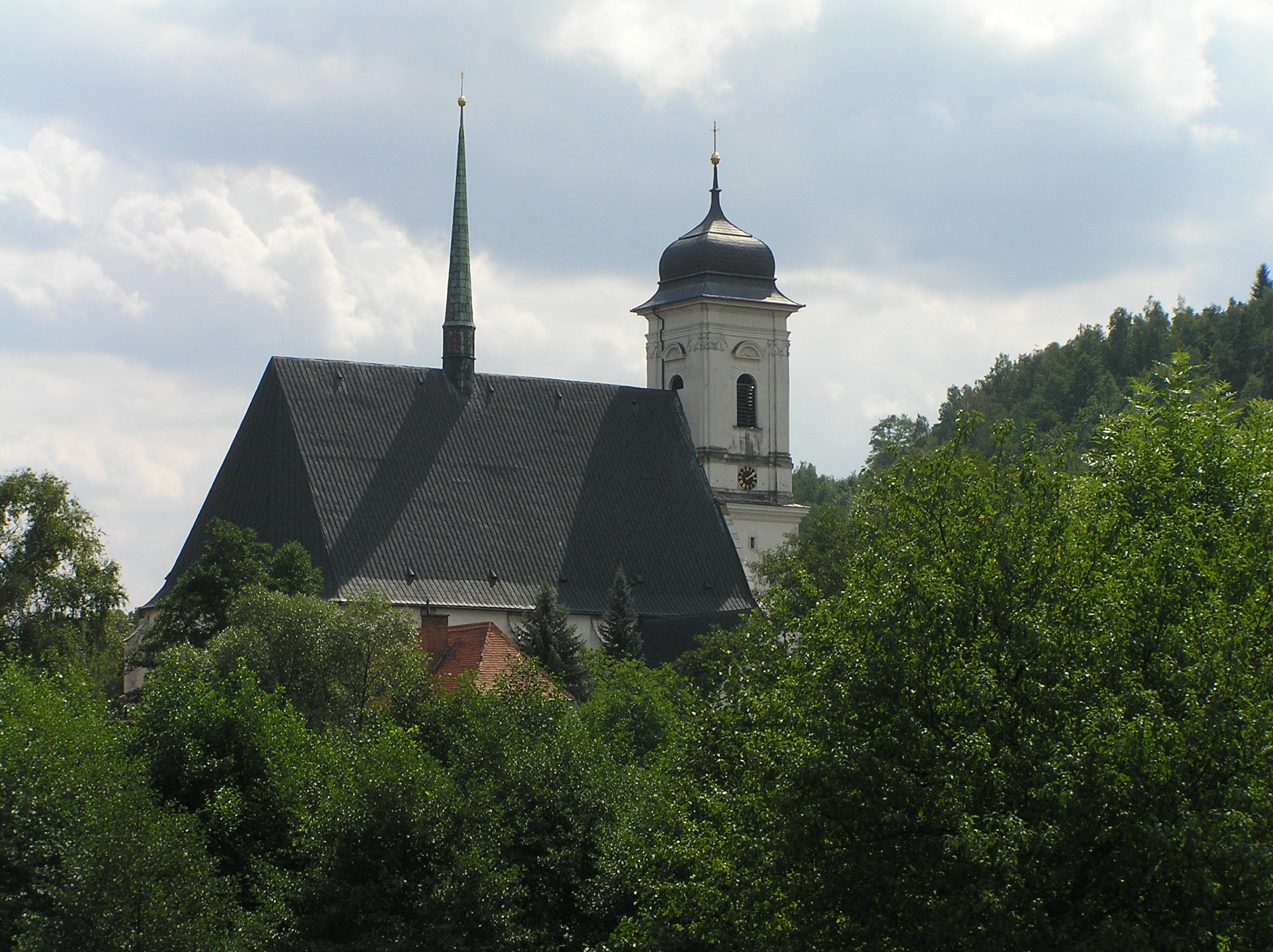 Church of Exaltation of the Holy Cross in Doubravník, South Moravia, Czech Republik.